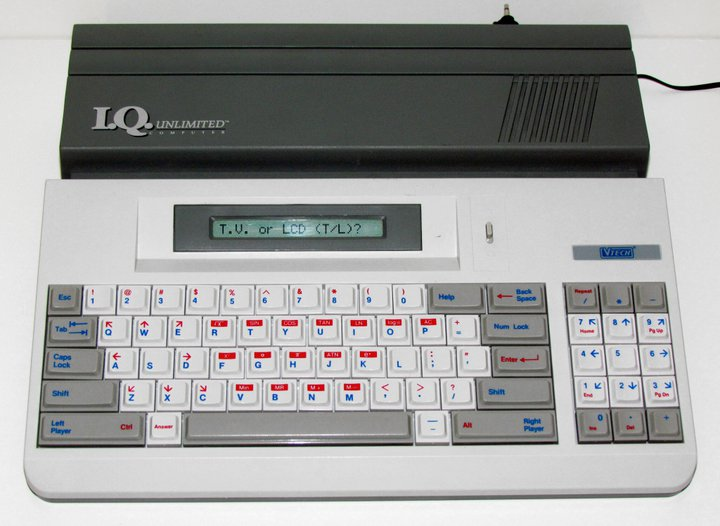 1991 VTech I.Q. computer.